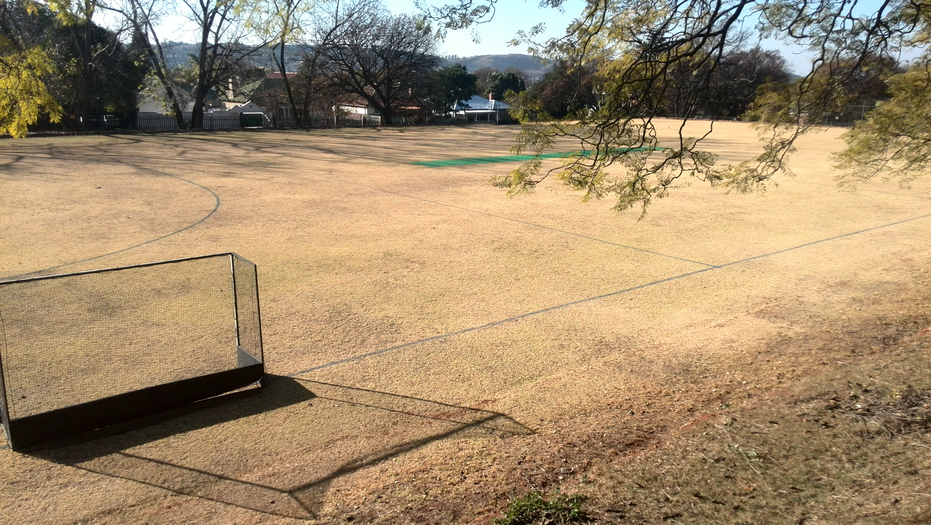 Jeppe Girls sports ground